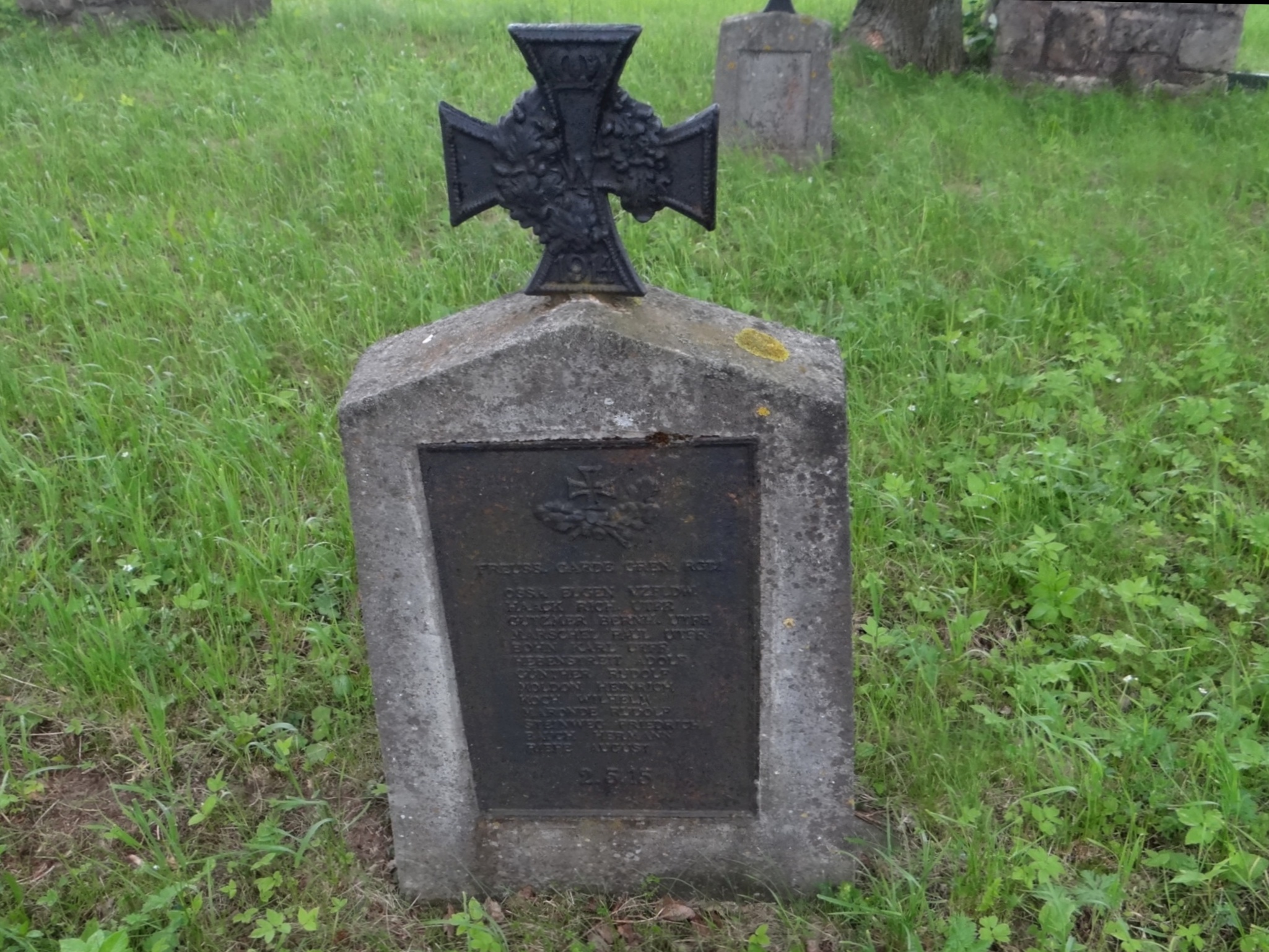 World War I Cemetery nr 118 in Staszkówka